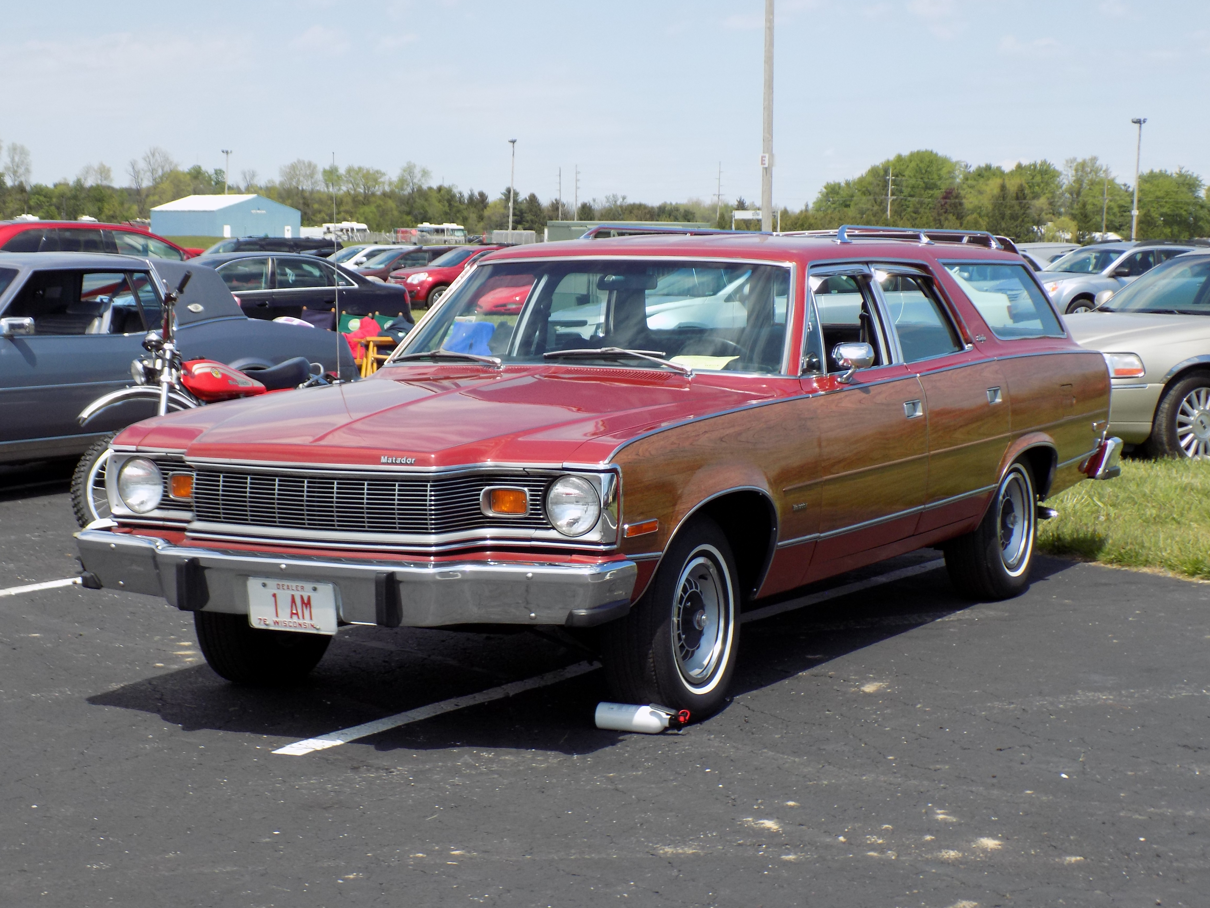 Triple Crown Antique Automobile Club of America (AACA) Classic Car Club Of America (CCCA) First Joint Meet Auburn Auction Park Auburn, Indiana May 2017 . Click here for more car pictures at my Flickr site. Or here for my Car Crazy Tumblr site. Or on Twitter @DVS1mn.